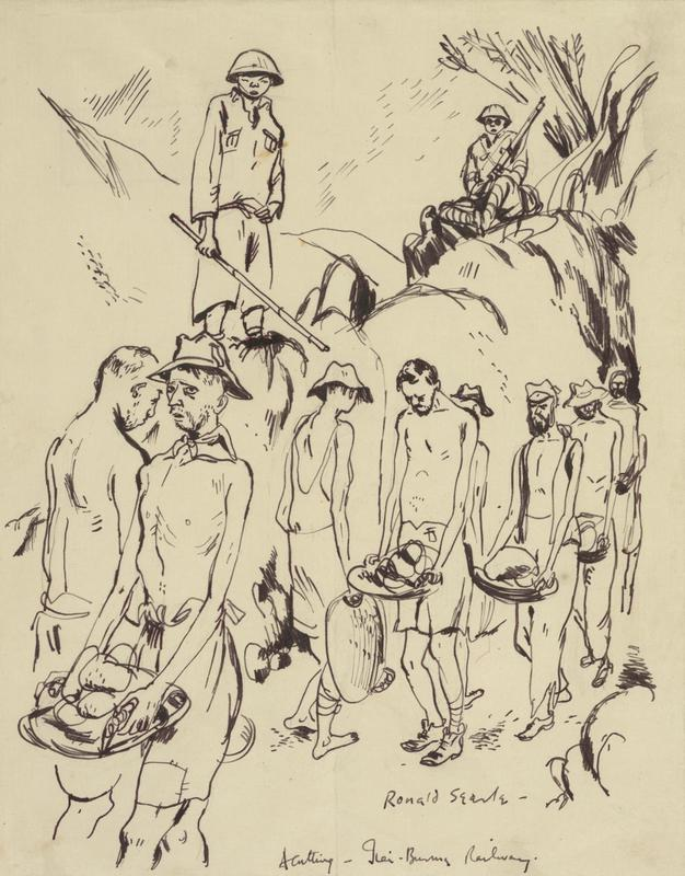 In the Jungle - Working on a Cutting. Rock Clearing after Blasting image recto: A group of eight Prisoners of War. Their clothes are threadbare, and they carry baskets of rocks in a continuous chain towards the left of the picture, returning towards the right with empty baskets. They are watched over by two Japanese soldiers on the rocks behind them, one standing and carrying a long bamboo cane, the other, wearing round glasses, seated on the right with a rifle in his lap. image verso: A small drawing of a basket, as used in the drawing overleaf.